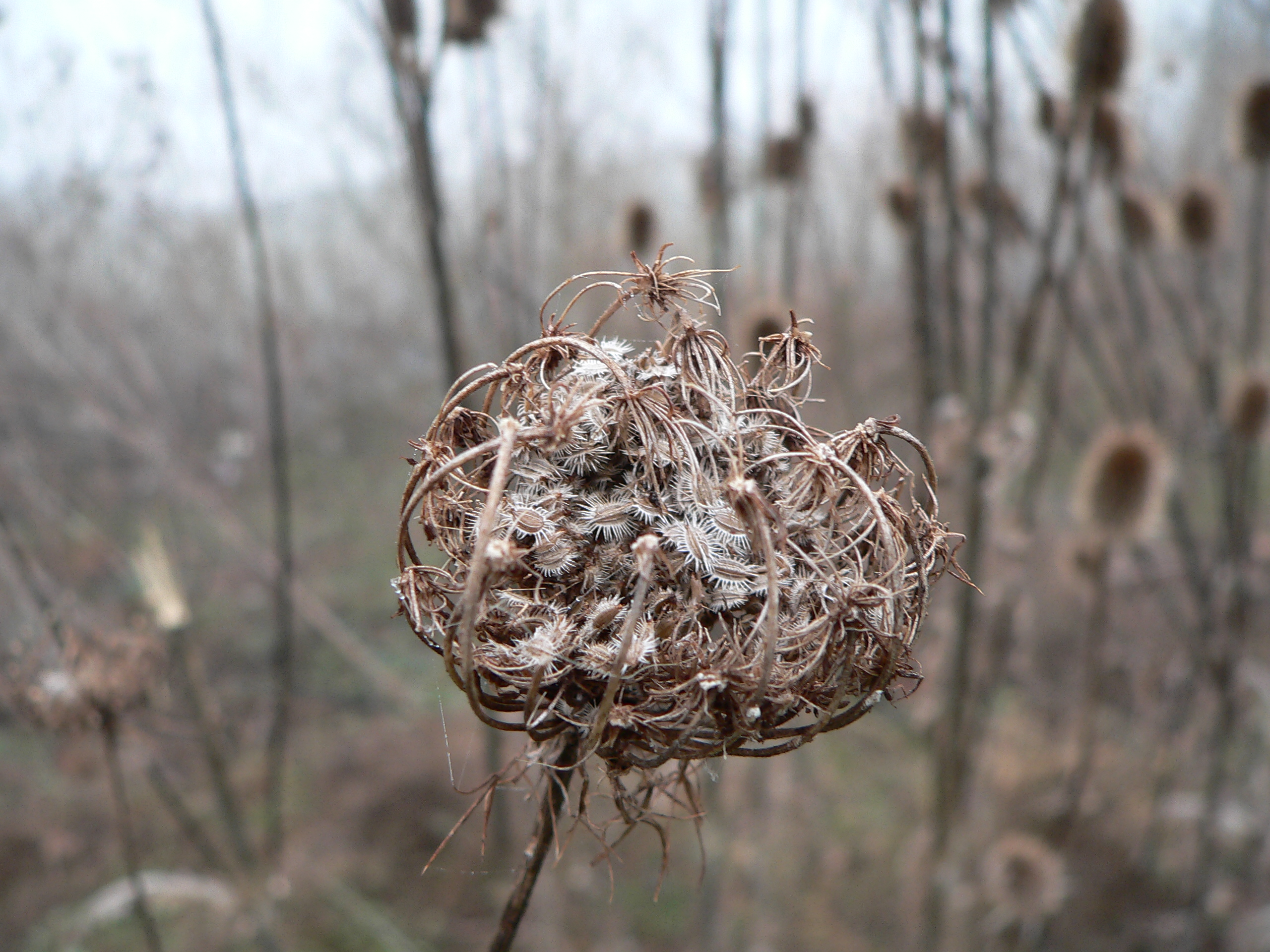 Daucus carota seed pod - taken near Cincinnati, OH.